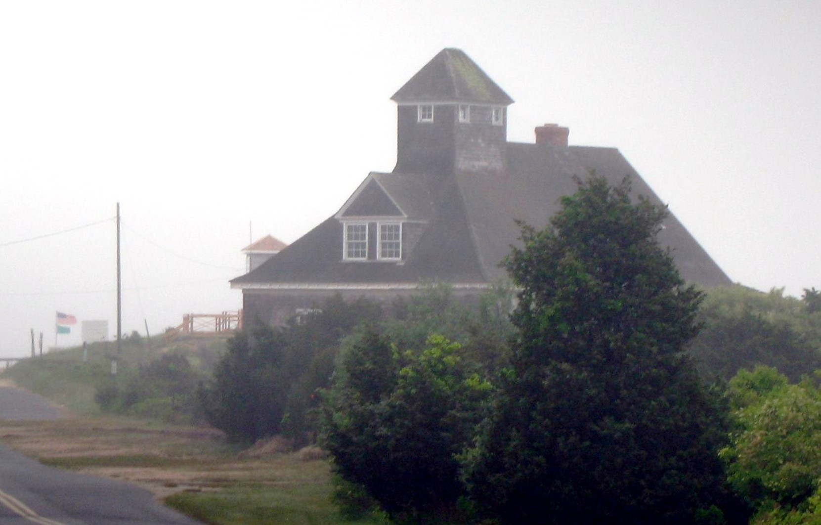 United States Coast Guard station at Atlantic Avenue Beach (also known as Coast Guard Beach) in Amagansett, New York, after the station was moved back to near its original location in 2007. The station was near where a Coast Guardsman discovered Nazi saboteurs on the beach during World War II.